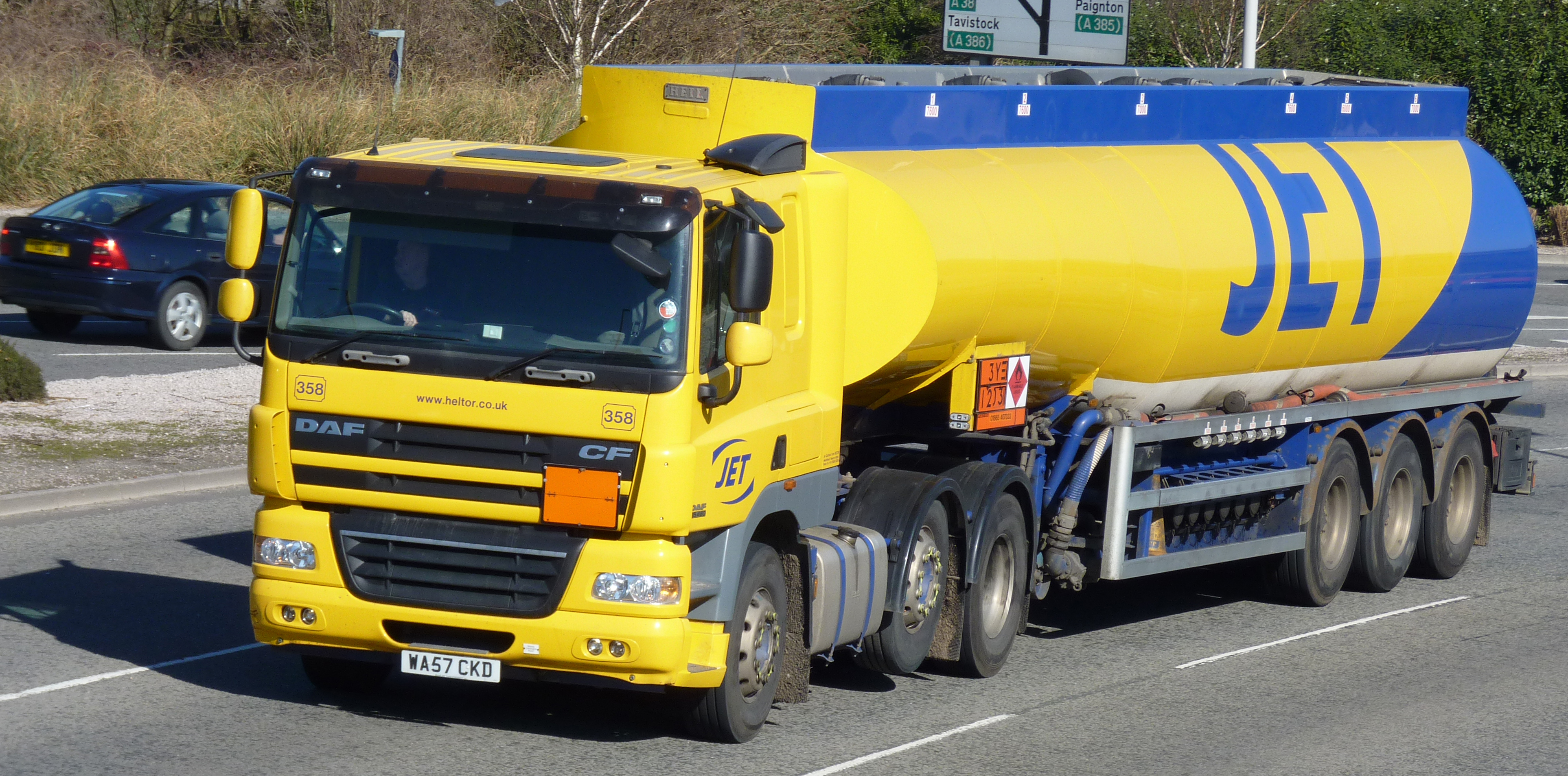 08 March 2010 Marsh Mills Plymouth